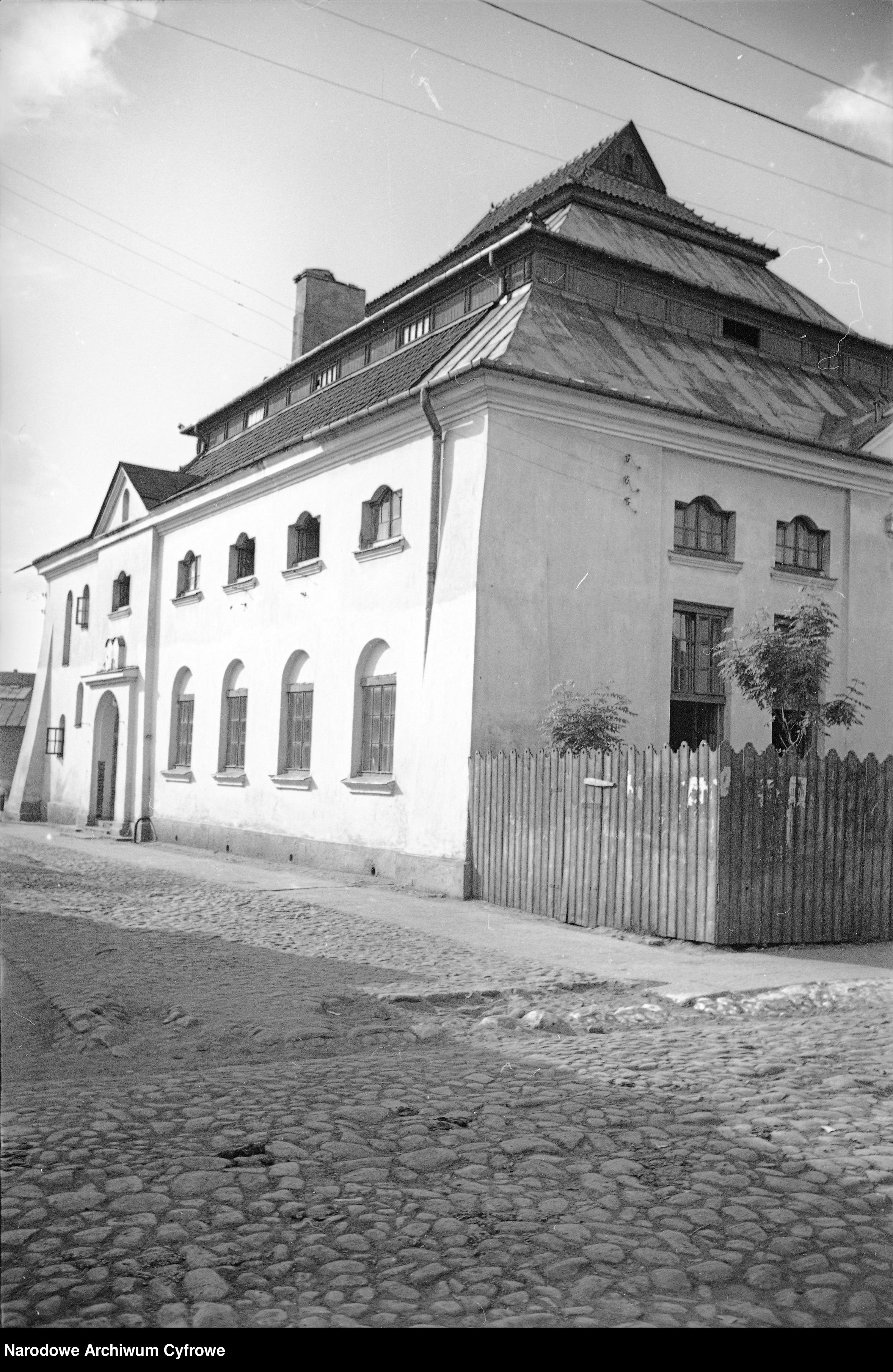 synagoga